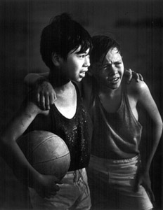 Al final de la lucha, a photo showing two children after playing an amateur football match, as commonly happens in Argentina where it is the most practised sport.